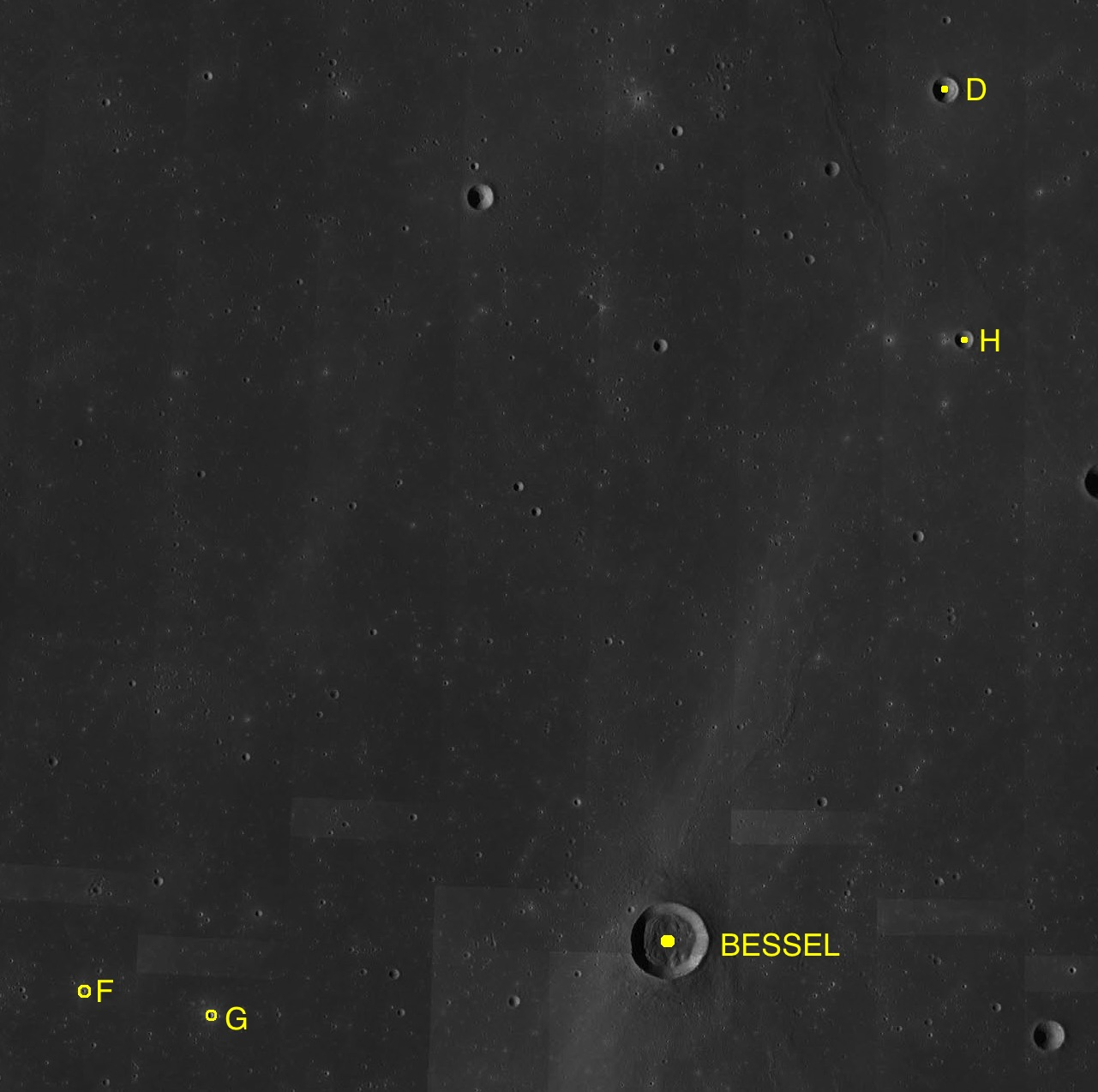 Part of the chart LAC-42 used for the presentation.